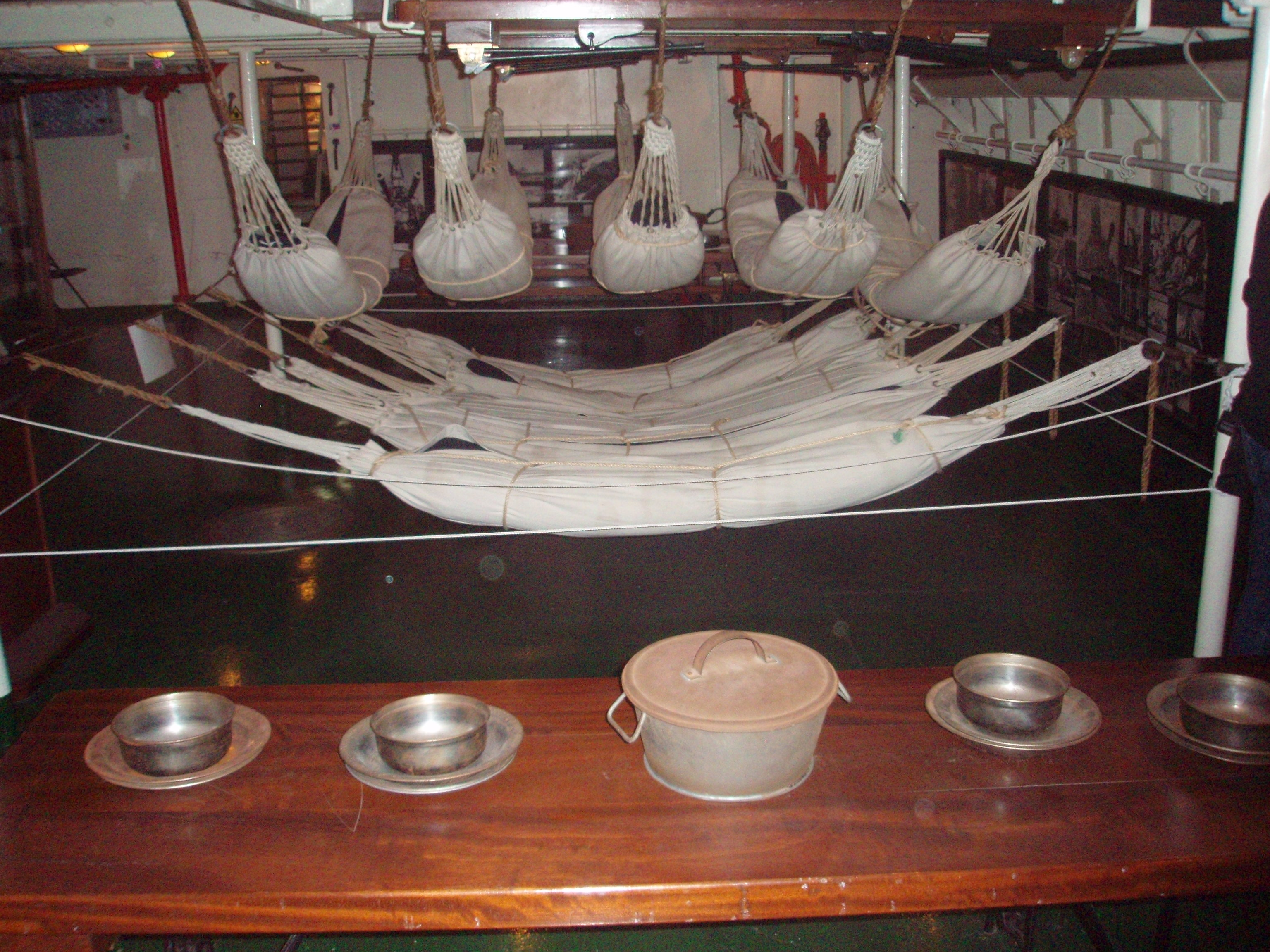 View of the crew quarters and hammocks of the armoured cruiser Georgios Averof at the Maritime Tradition Park in Faliron, Greece